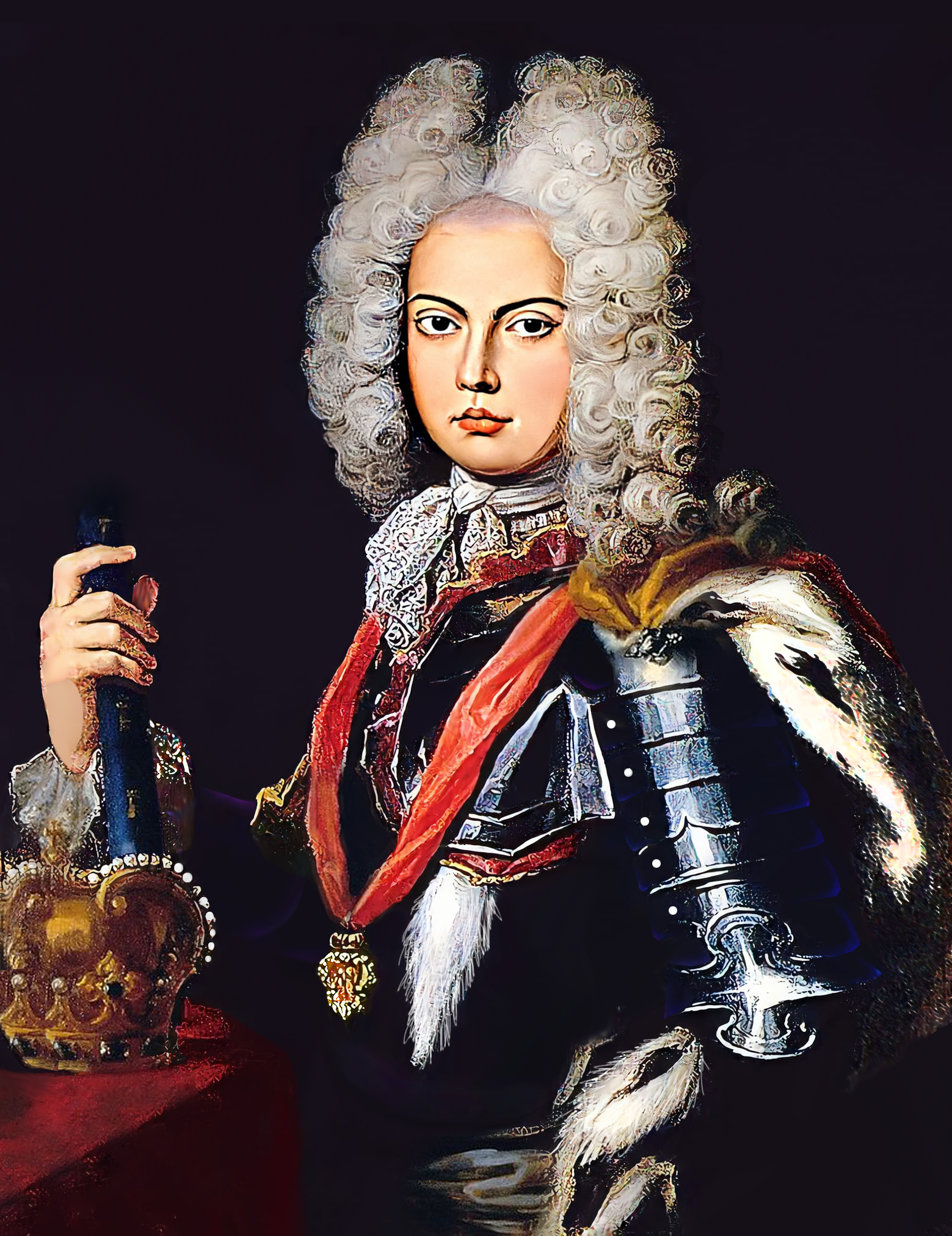 Portrait of the king Portuguese Dom João V. The portrait is of João approximately 50 years old.